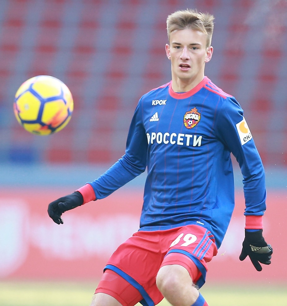 Konstantin Kuchayev with PFC CSKA Moscow in a game against FC Ural Yekaterinburg.